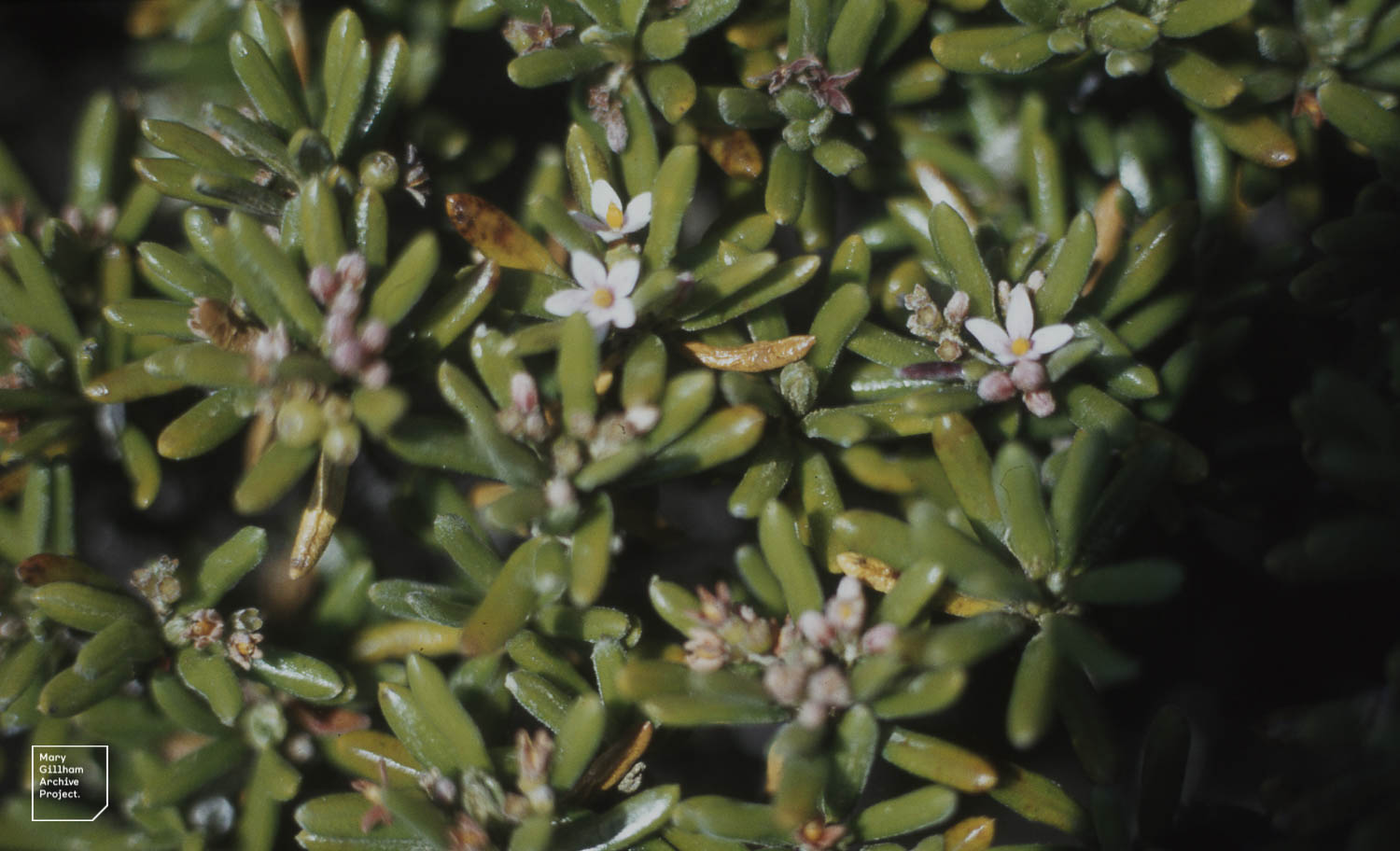 South Point & South Beach, Little San Salvadore